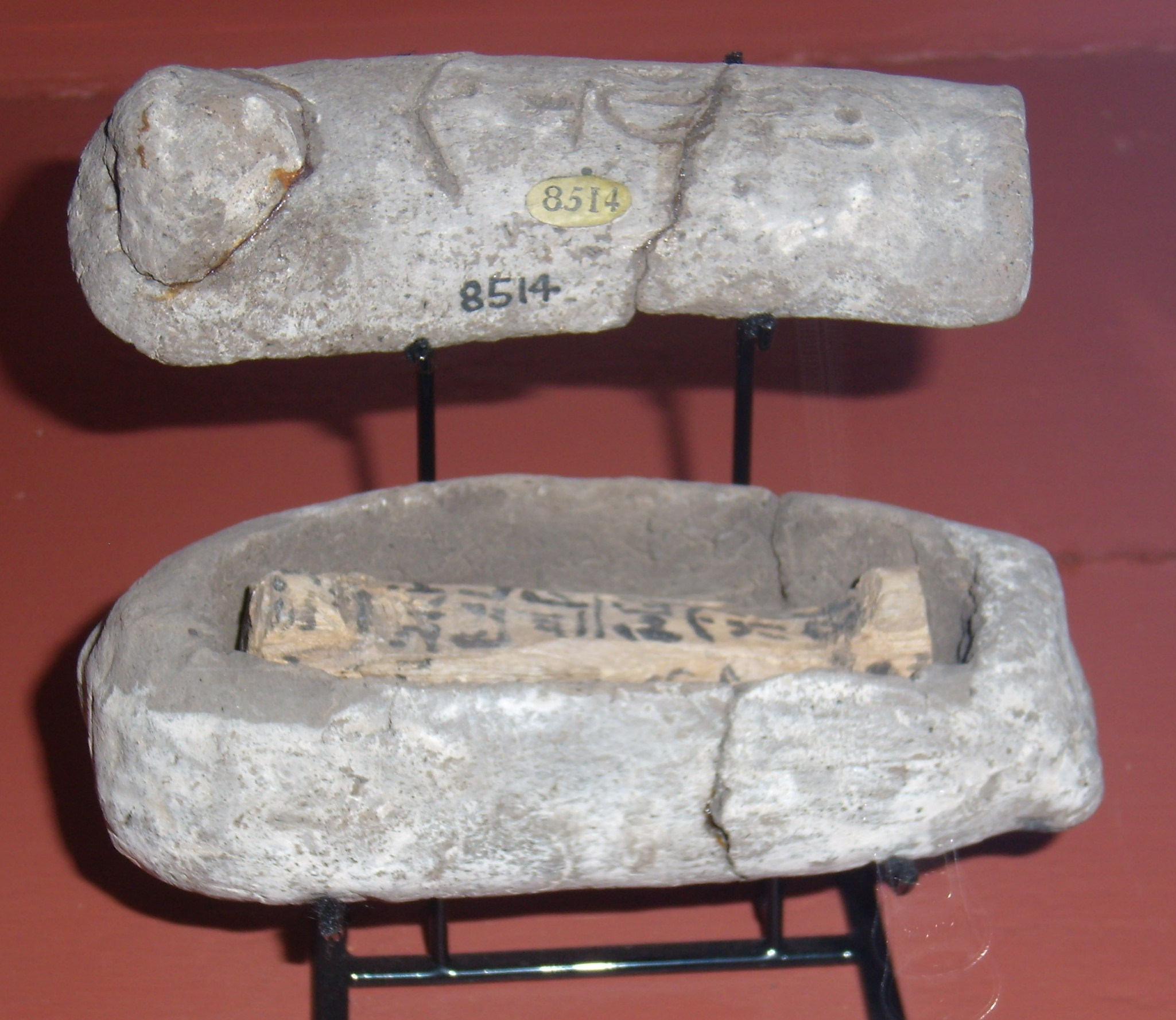 Stick shabti in model coffin, British Museum, Ancient Egypt